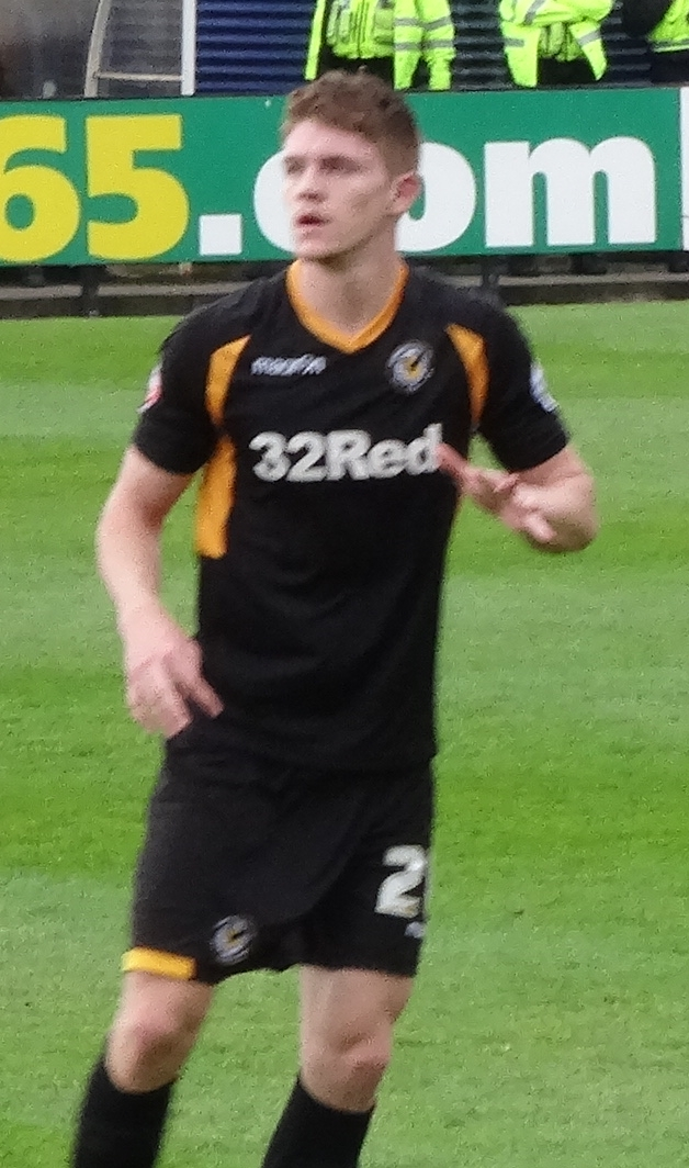 Kevin Feely playing for Newport County against York City at Bootham Crescent, York on 26 April 2014